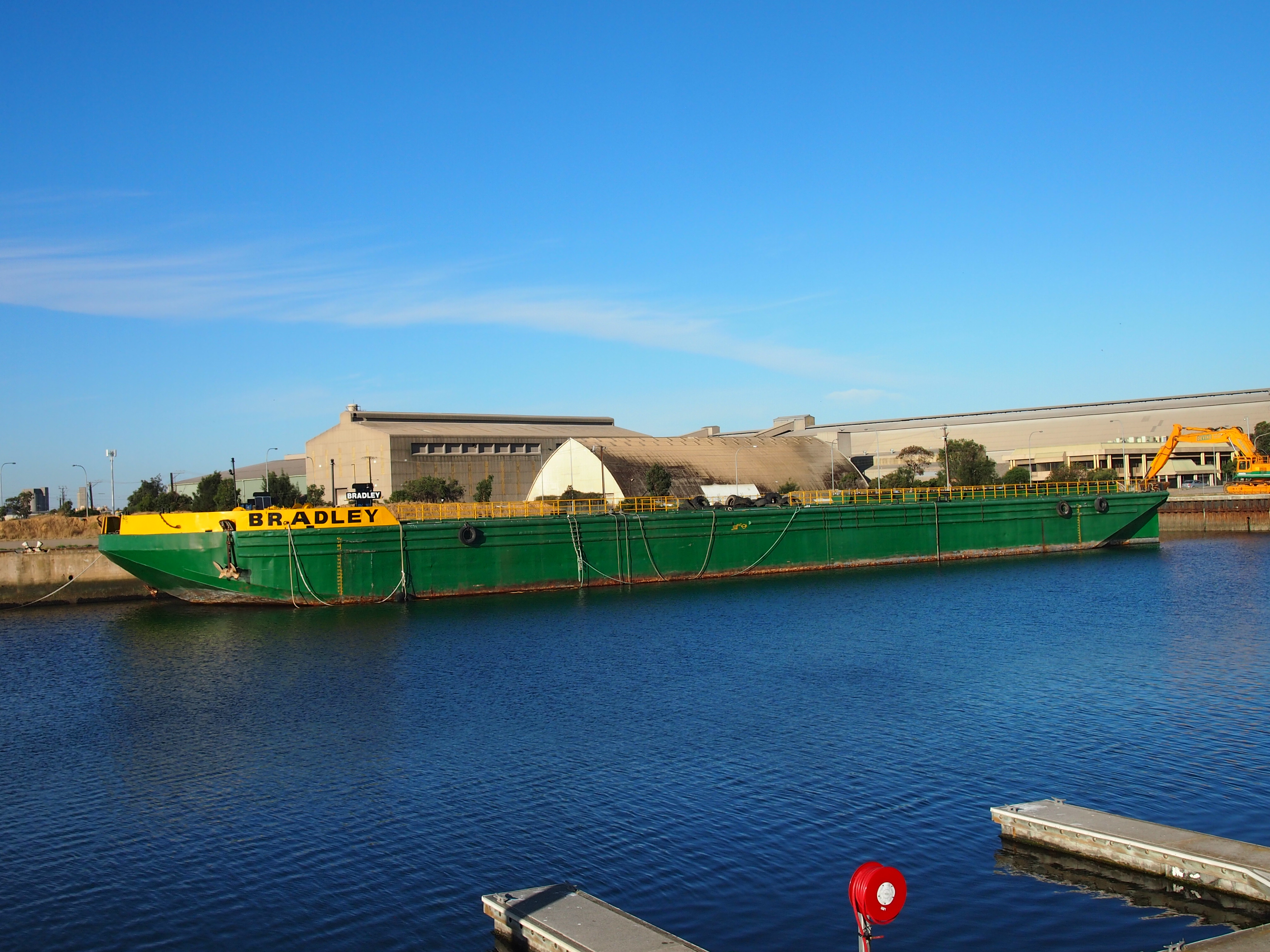 The Bradley barge (seen in Dock 1 at Port Adelaide) will be used as a temporary floating platform for the City of Adelaide clipper until a final shore-based location is prepared in the inner harbour of Port Adelaide. Original filnename = PC120759.jpg